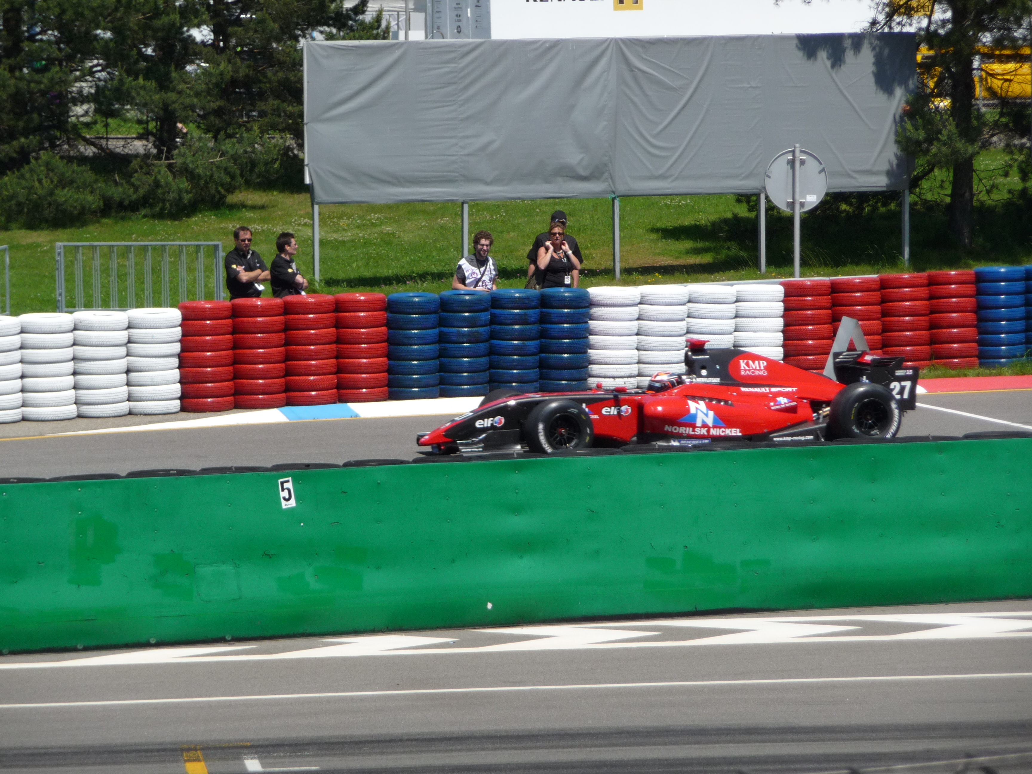 Anton Nebylitskiy, Formula Renault 3.5 Series, 2nd race, 2010 Brno World Series by Renault -10-5-3-2◄►+2+3+5+10